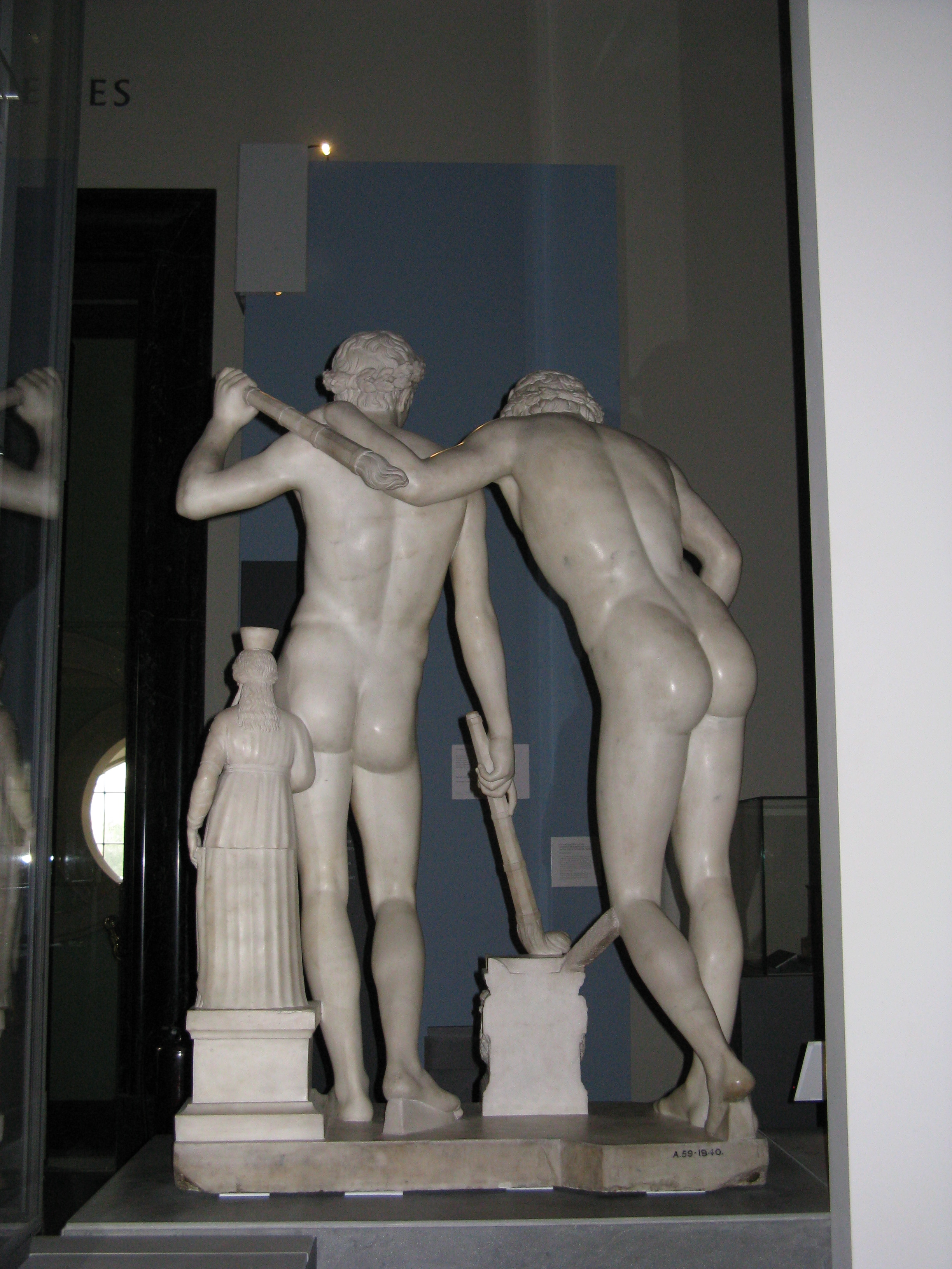 Copy of Castor and Pollux by Joseph Nollekens at Victoria and Albert Museum.